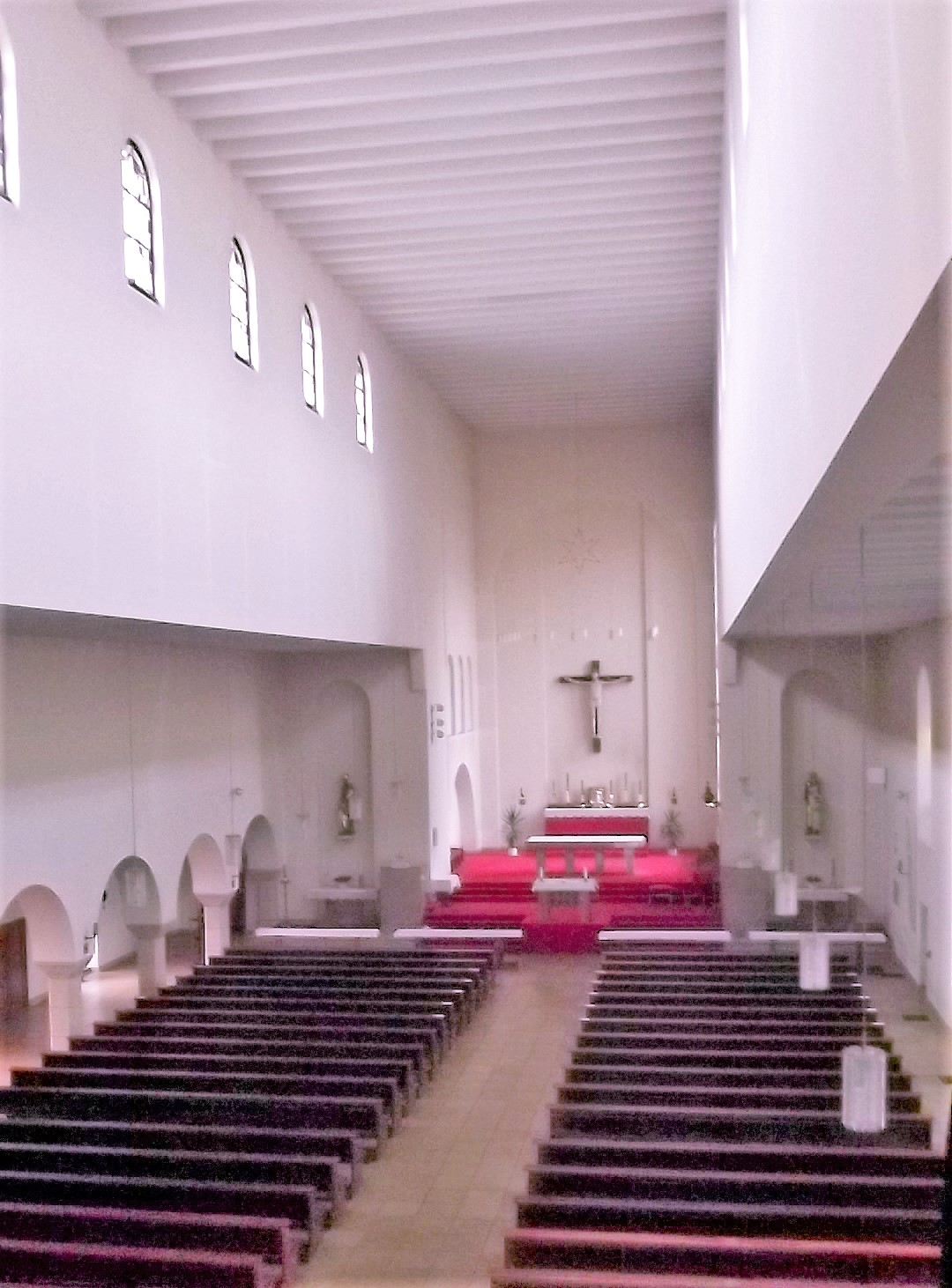 Interior of the roman catholic St. Ann's-church in St. Wendel, Saarland, Germany